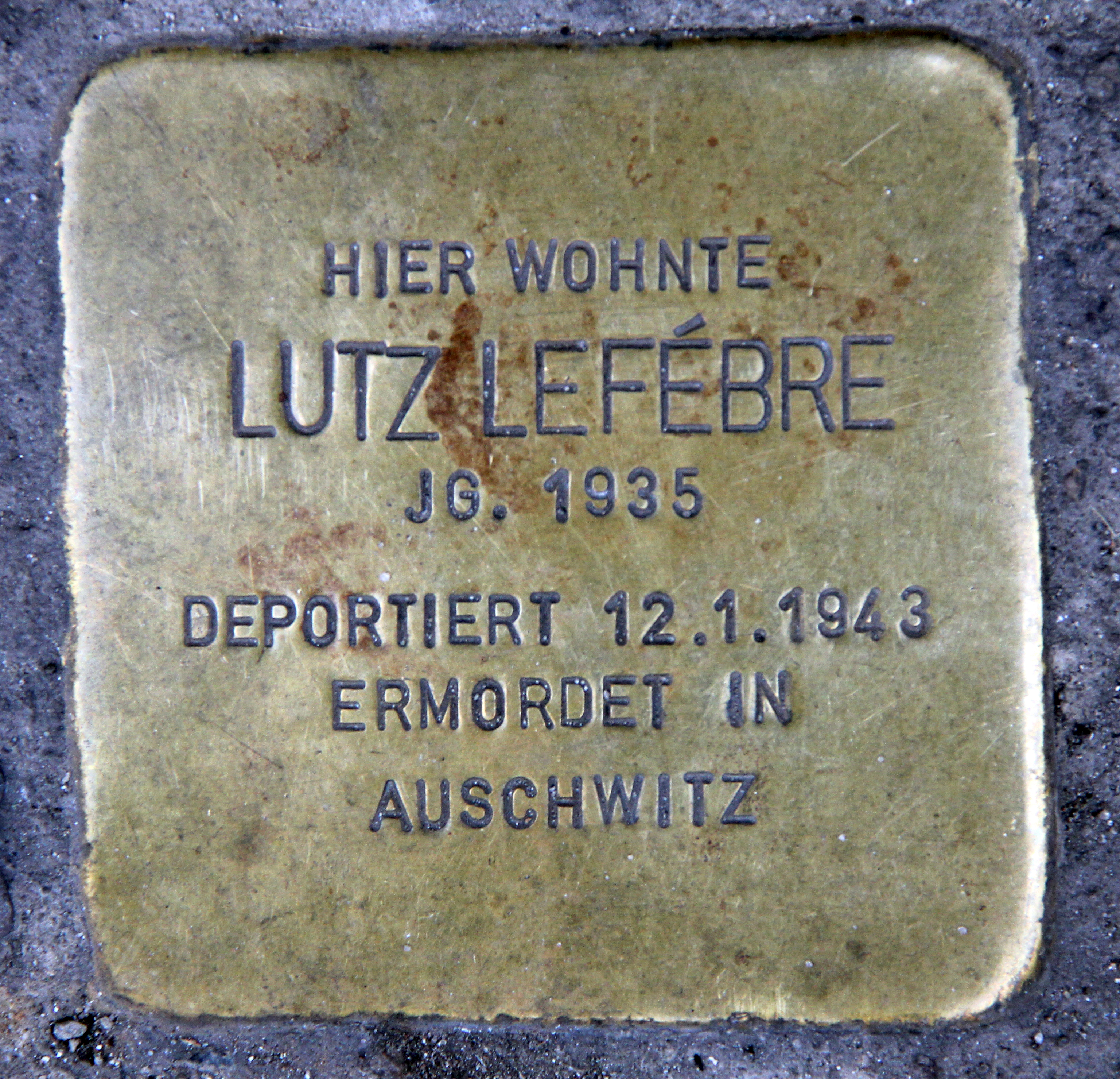 "Stolperstein" (stumbling block), Lutz Lefébre, Marburger Straße 3, Berlin-Charlottenburg, Germany